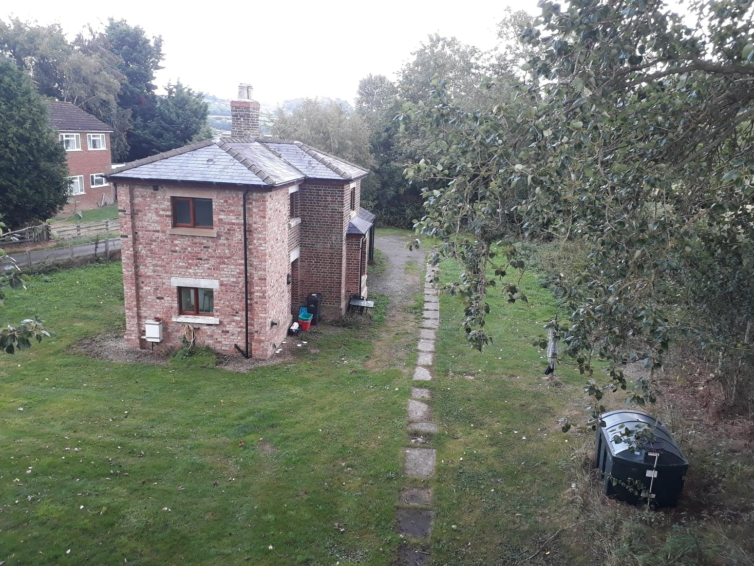 My own